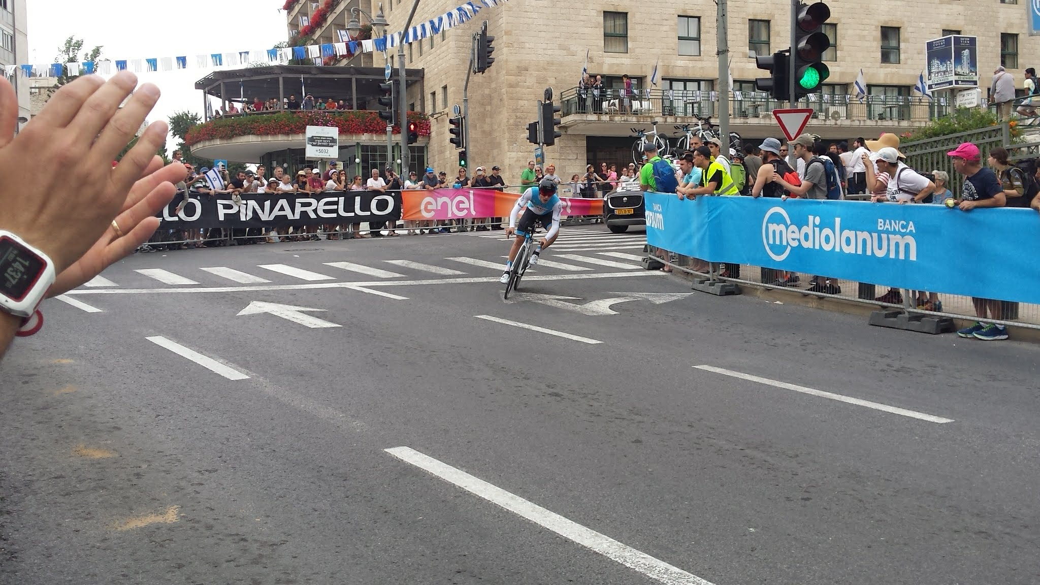 Giro d'Italia 2018 - Stage 1 (Jerusalem)